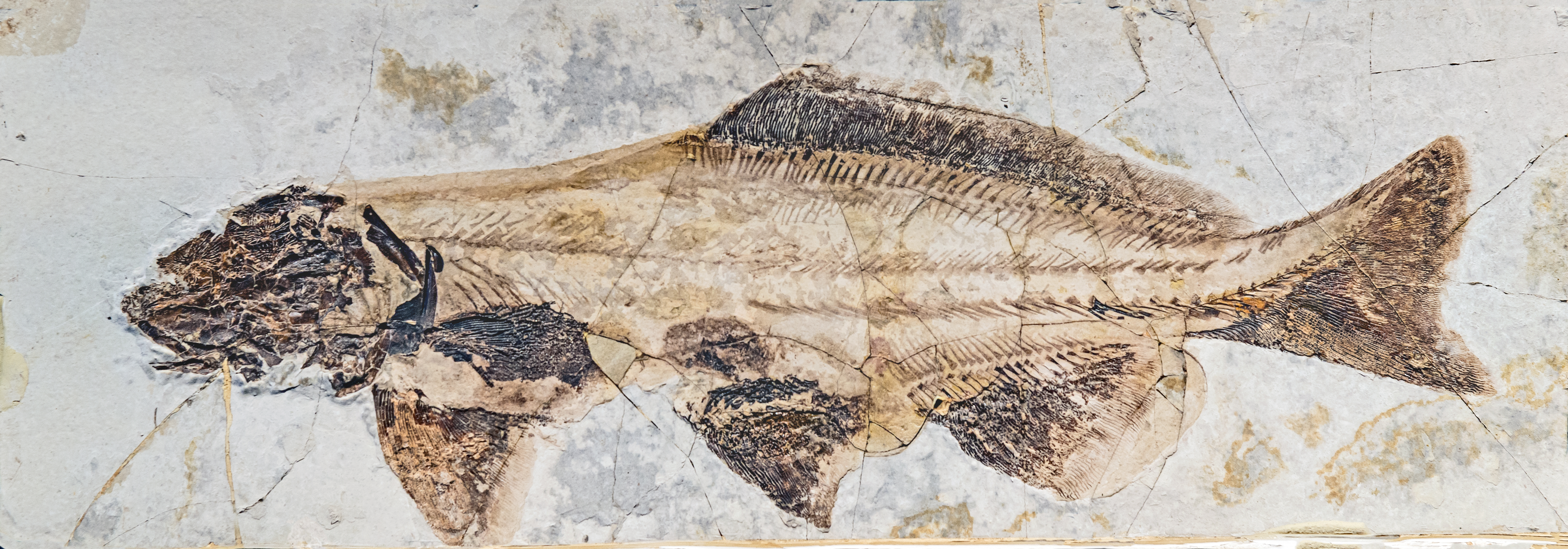 Yanosteus longidorsalis Size : 47.0x16.6x1.4 cm cm 1.79Kg Stage : Early Cretaceous 146 Ma to 100 Ma. (million years ago).